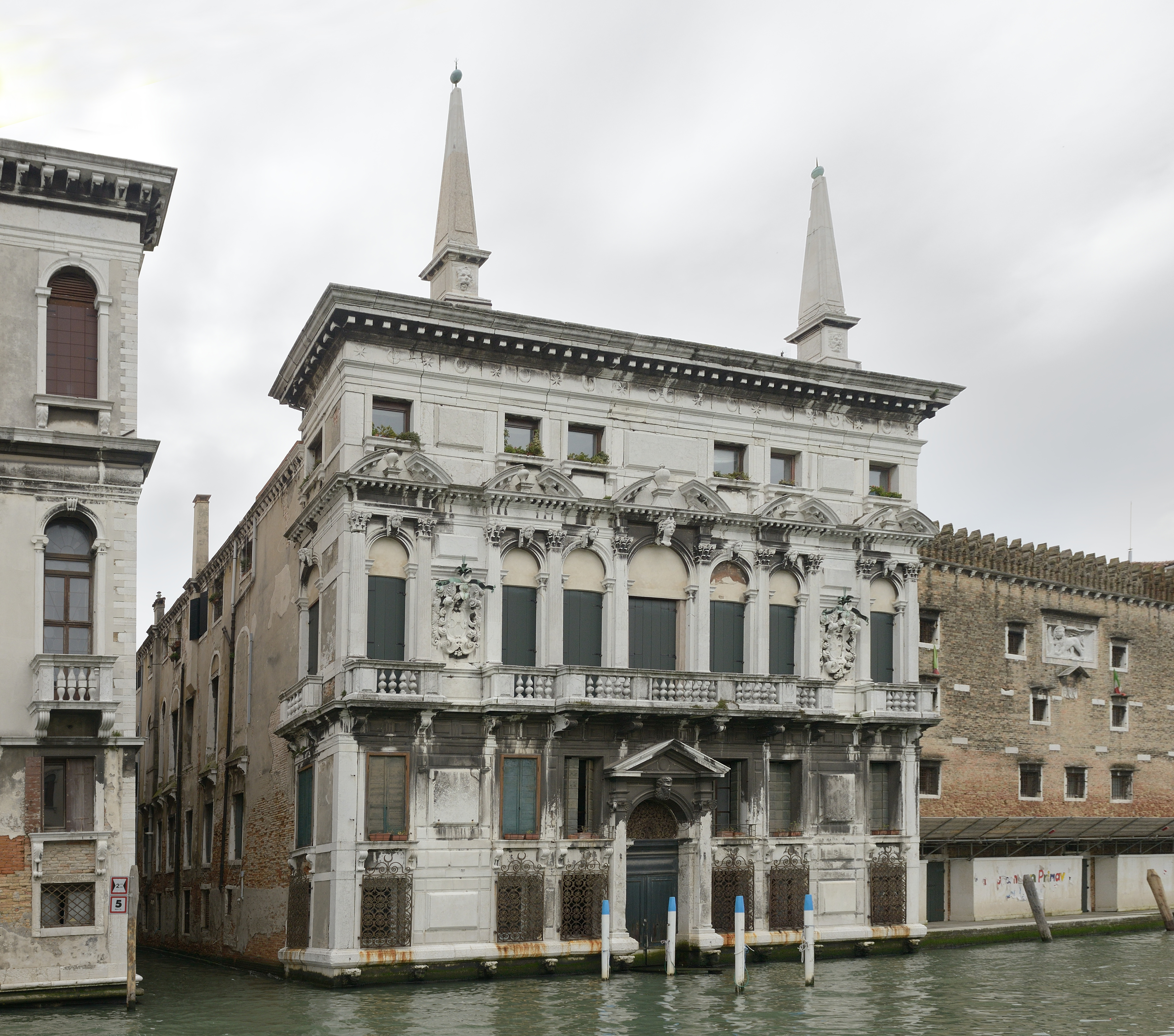 Palazzo Belloni Battagia on the Canal Grande in Venice - Baldassarre Longhena architect